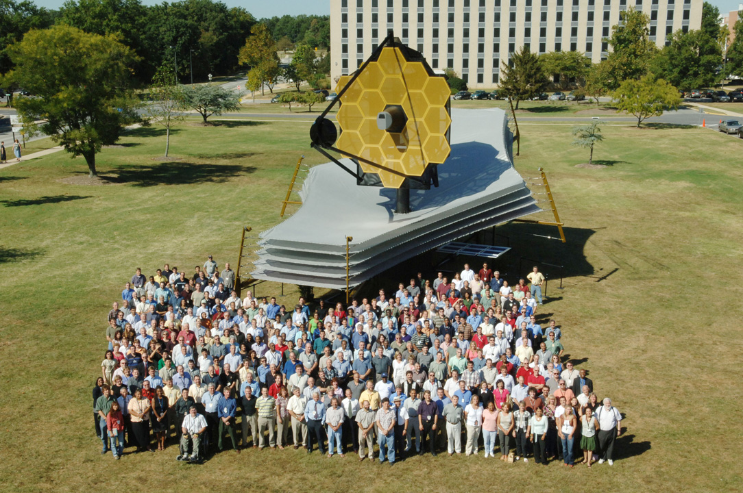 The full-scale model is assembled on the lawn at Goddard Space Flight Center, and displayed during September 19 - 25 2005. The Webb Telescope team took a group photo with it. Seeing the people gathered next to it shows its scale nicely.